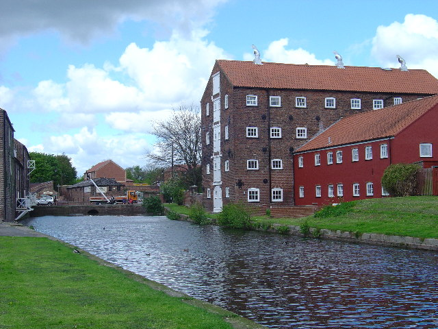 Canal Head, Driffield, East Riding of Yorkshire, England There is work under way to restore navigation to the Driffield Canal. The warehouses have been converted to residential use.